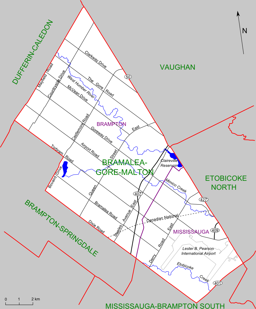 Map of the Ontario federal and provincial riding of Bramalea-Gore-Malton (boundaries defined federally in 2003 and adopted provincially in 2007)